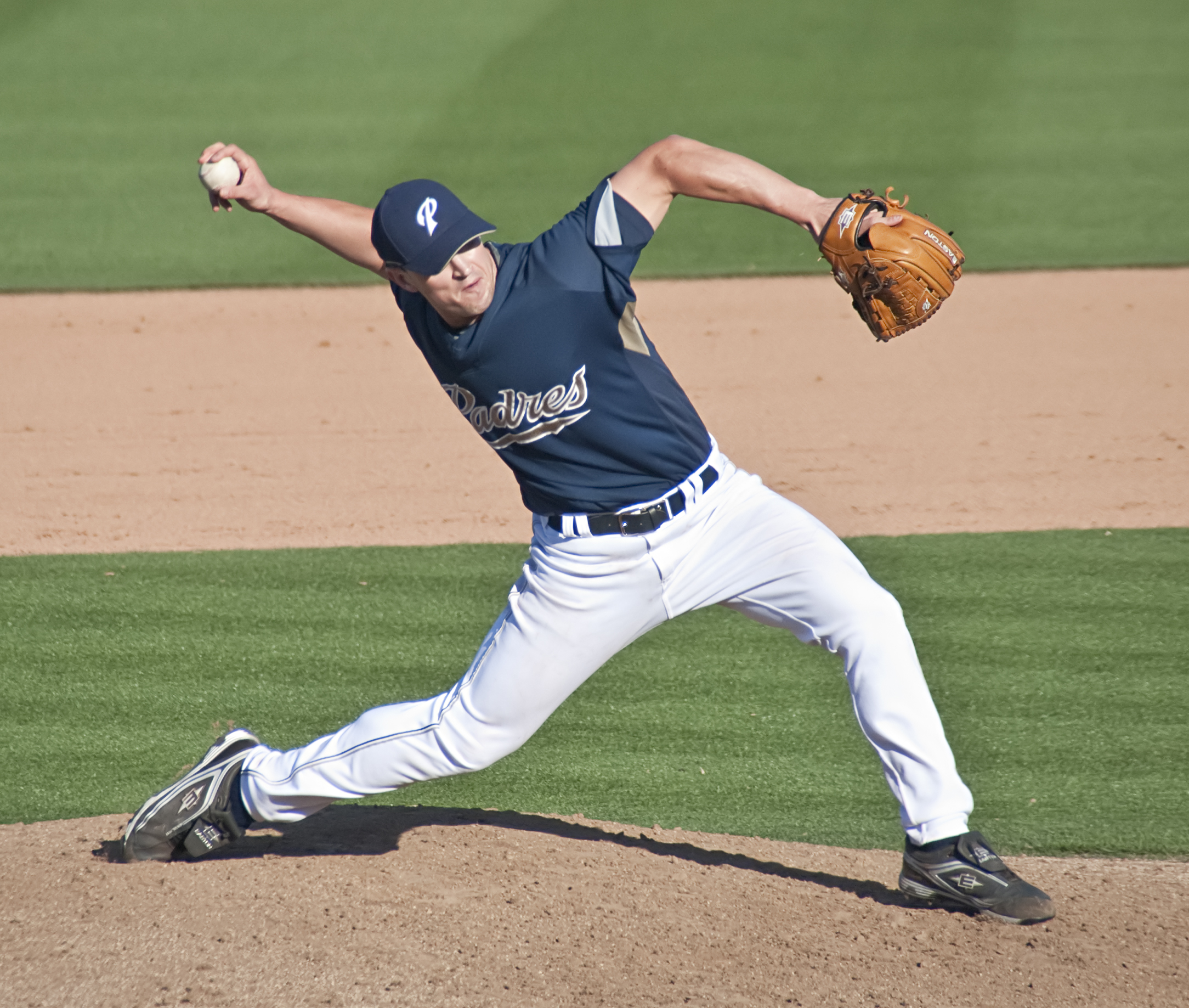 Mark Worrell pitcher for the San Diego Padres spring training baseball